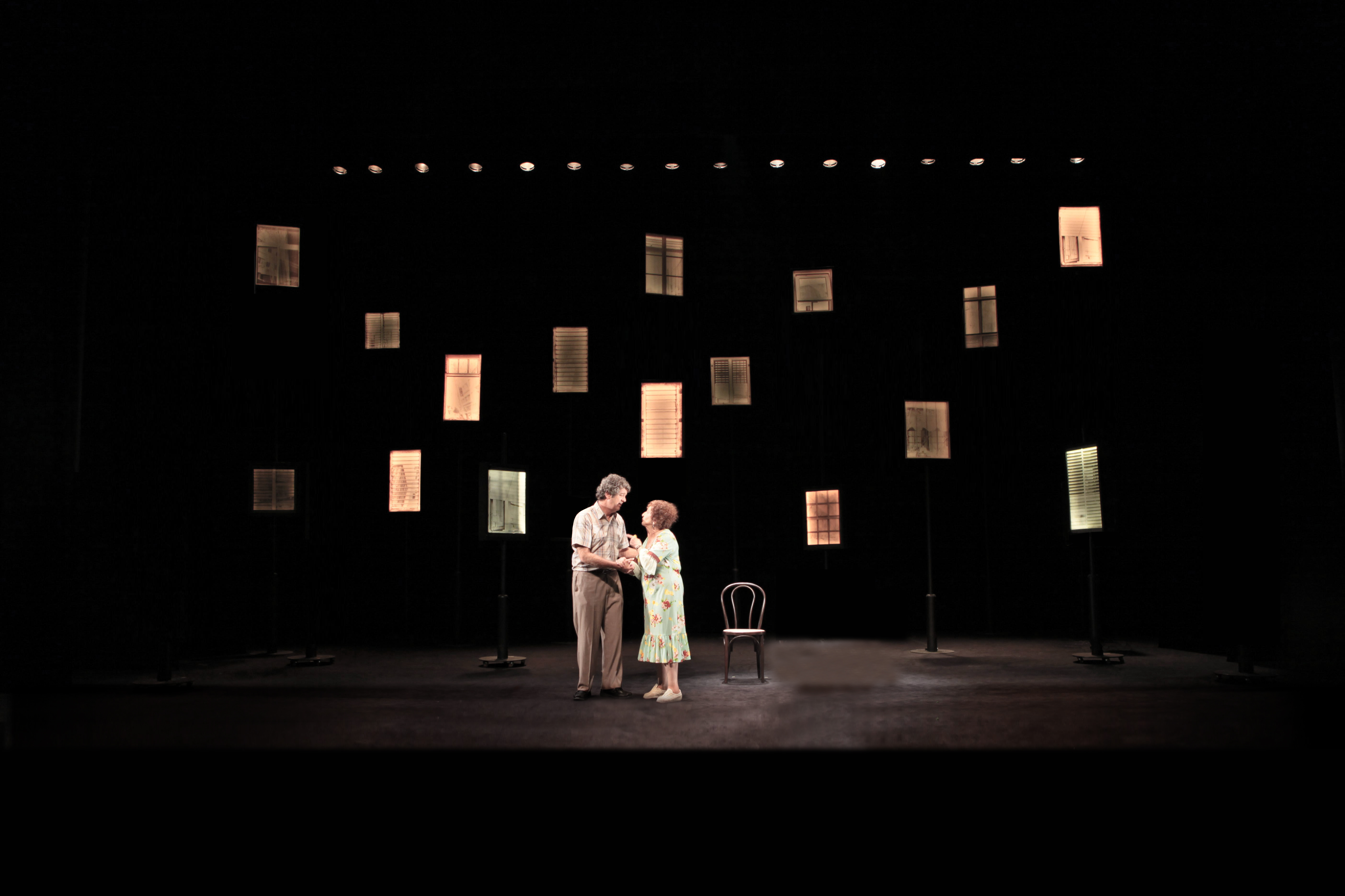 מוריס שימל, הבימה וחיפה, 2010